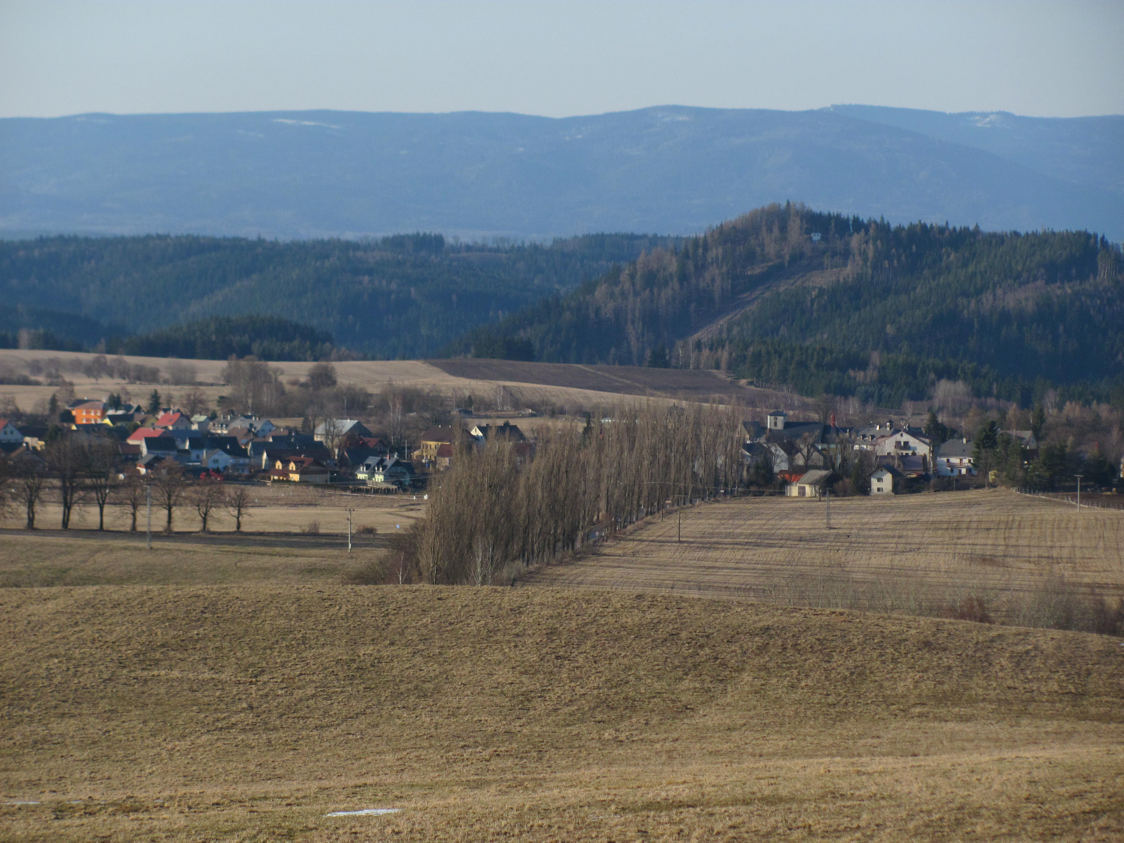 Stanovice from Dražovský hil, Ore Mountains in the back